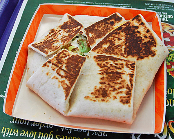 A Taco Bell Crunchwrap Supreme, before consumption. Photo by fatLouie